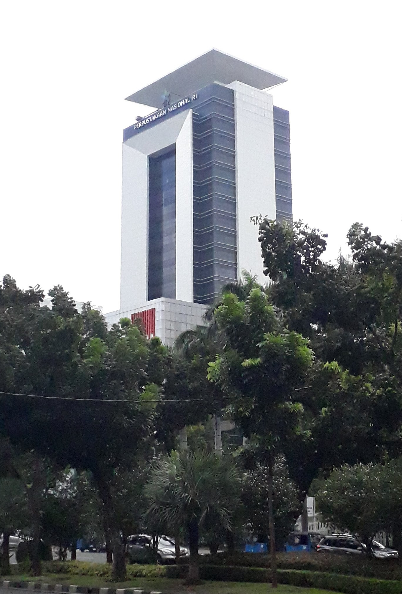 The Indonesian National Library building in Jakarta